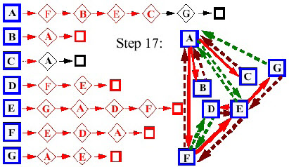 Dry run Depth-first search Algorithm in Graph, step 17